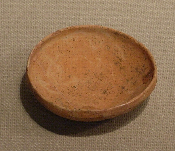 Hajiki from the Kōriyama Site. Sendai, Miyagi prefecture, Japan.